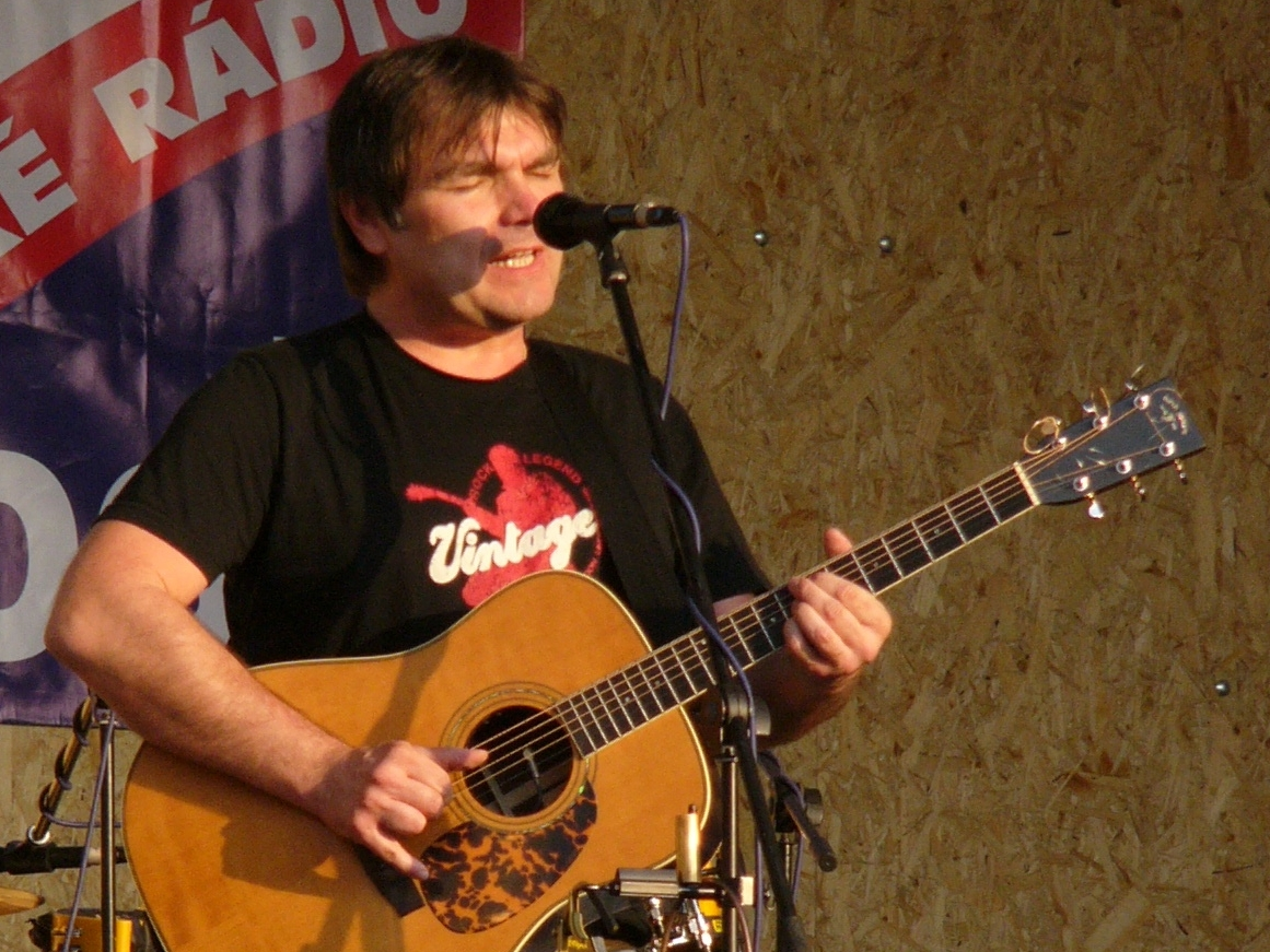 Musician Roman Horký from Czech music band Kamelot in April 2006 in Olomouc (Czech Republic).